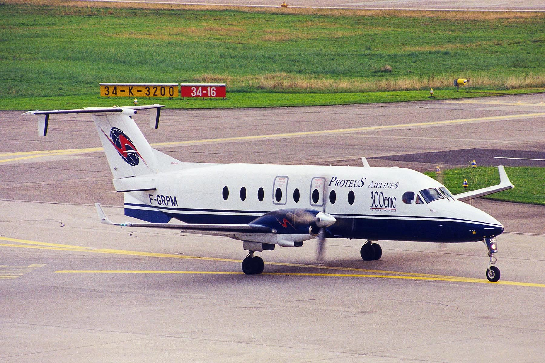 A picture of an airplane (name of it is on the file name).